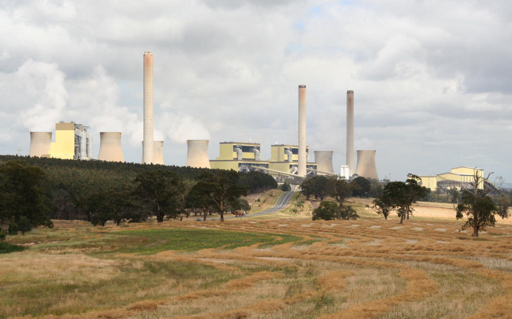 Loy Yang Power Station, Victoria, two generating units and single chimney of Loy Yang B, 1050 megawatt capacity to the left. Four generating units of Loy Yang A and two chimneys to the centre. Coal bunkers from open cut mine to the right.